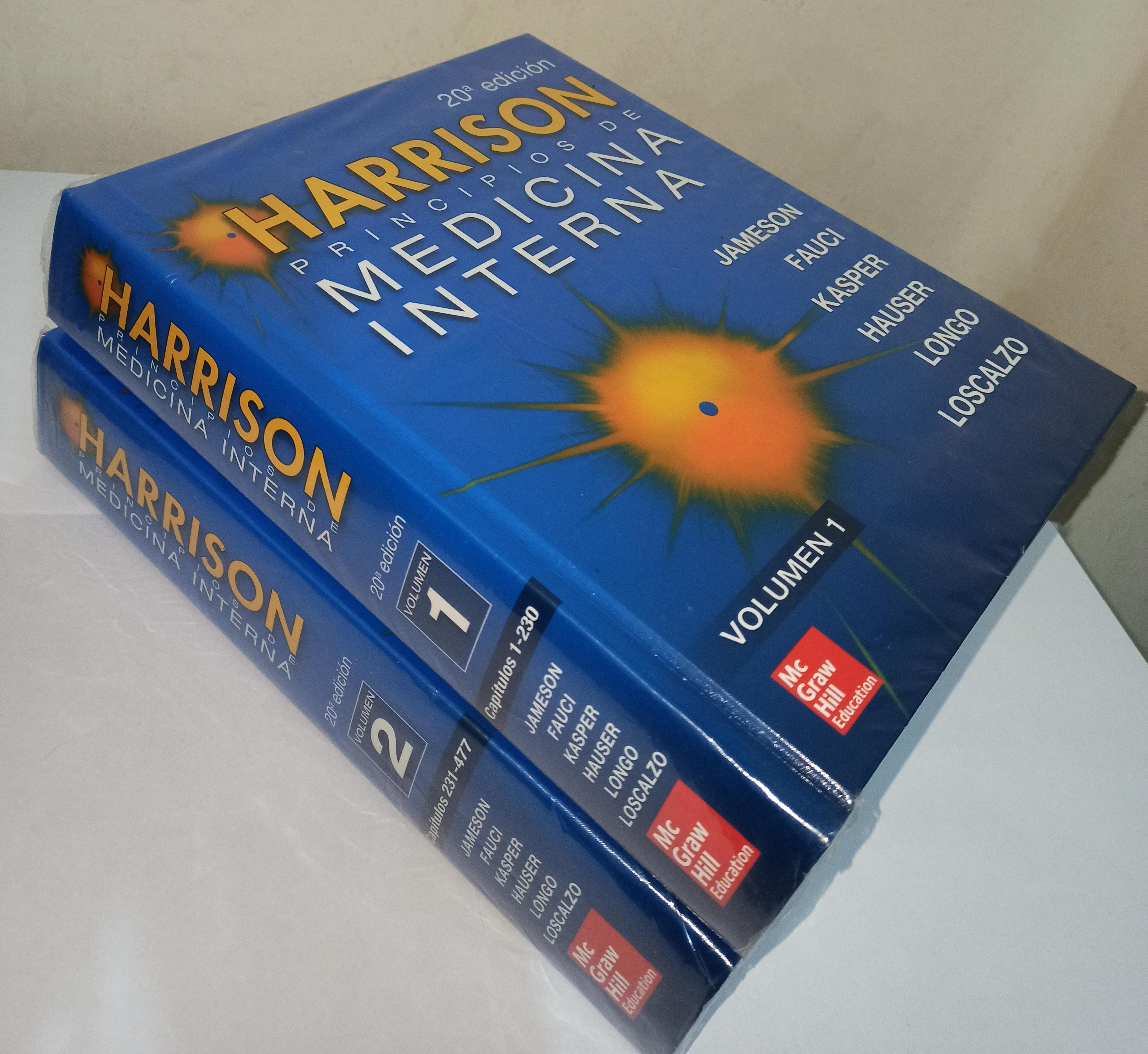 Principles of internal medicine - HARRISON 20th edition